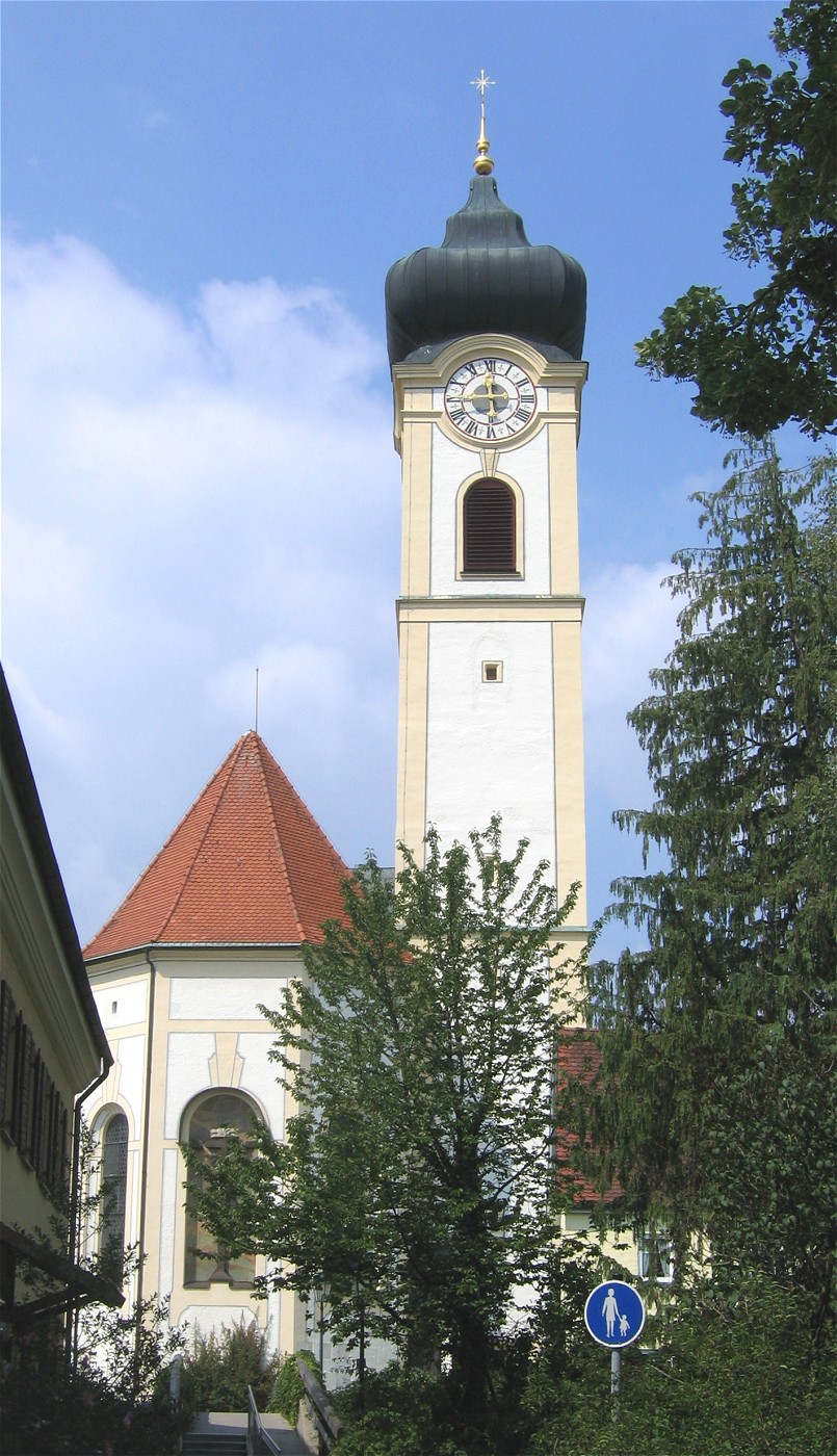 Bad Aibling, view of Parish Church of the Assumption from east.